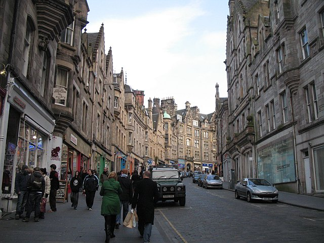 Cockburn Street Cockburn Street is Edinburgh's traditional youth street. Record stores have been in retreat, although the utterly wonderful Avalanche Records is still going strong, but the usual mix of clothes shops and restaurants are still there. A worrying trend is that the dreaded tartan tat shops are sneaking in, after all but sterilising the High Street.